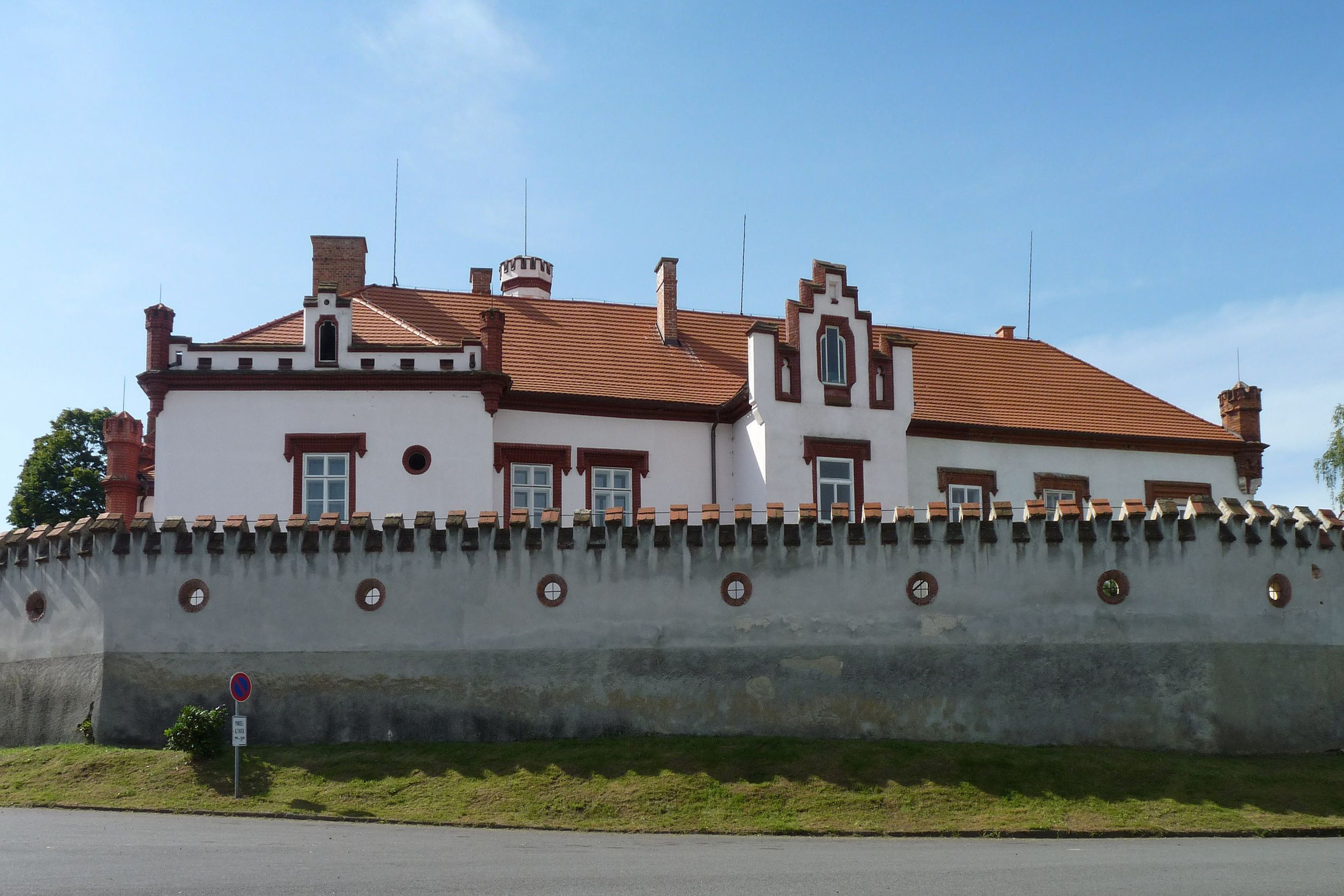 Château in the township of Dub, Prachatice District, Czech Republic.